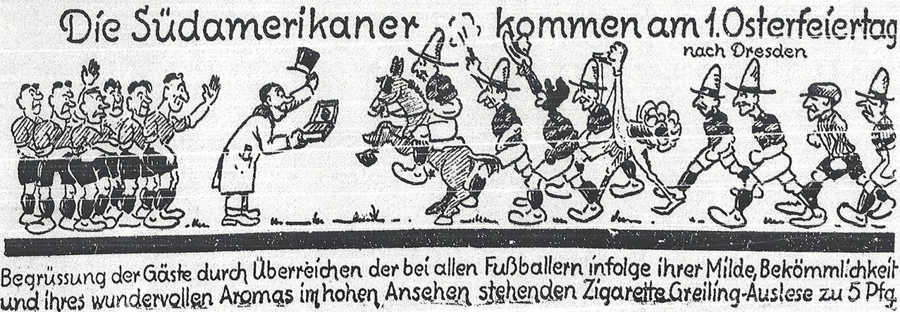 Newspaper advertisement by the German cigarette factory Greiling in the Dresdner Anzeiger on April 16, 1927. The occasion was the extensive tour through Europe by Uruguayan football club CA Peñarol who played the Dresdner SC. In translation, the text saysː „The South Americans come to Dresden on the first feast day of Easter [= Easter Sunday]. Welcoming of the guests by handing over the cigarette Geiling-Auslese [= Greiling selection] for five Pfennig [= pennies], which is held in high esteem by all football players due to its mildness, digestibility and its wonderful aroma.“